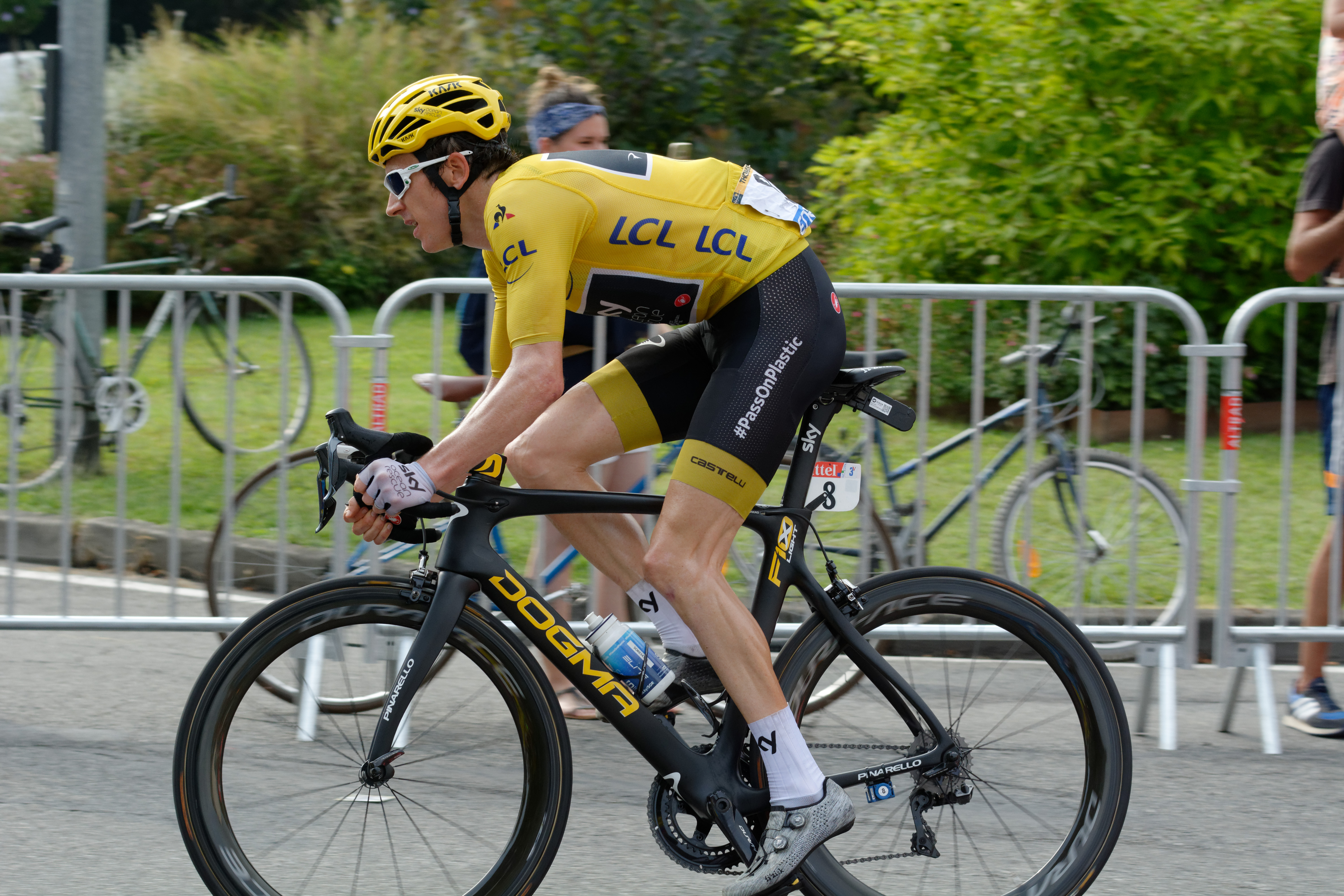 2018 Tour de France